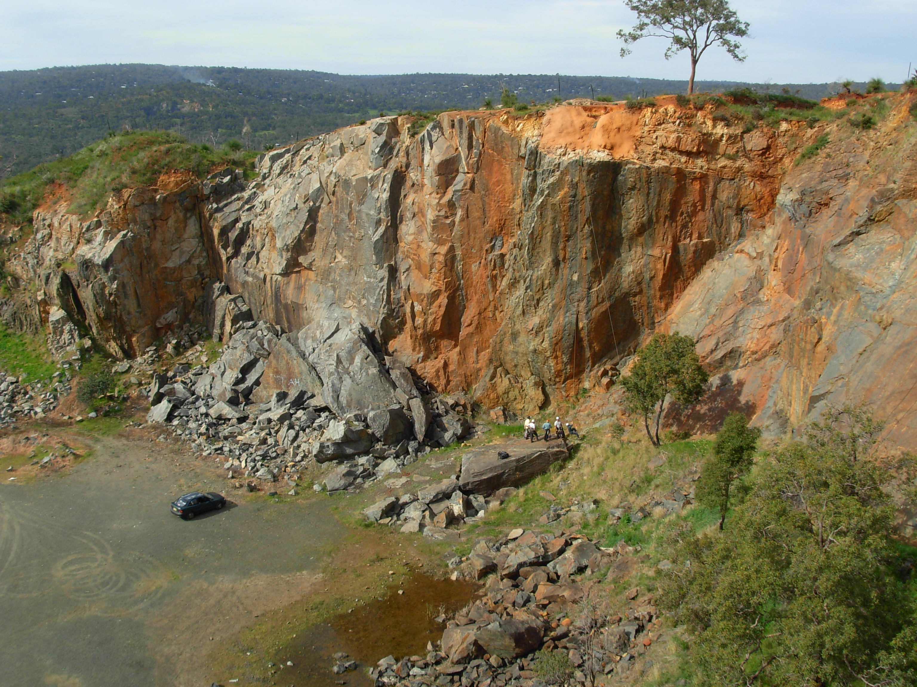 Photo is taken from the southern wall of the Statham's Quarry, Gooseberry Hill, Western Australia looking north. The foreground is the base of the quarry, and the rockwall facing the view is the medium difficulty abseiling location. There are climbers at the base.The view above the quarry is across the Helena Valley looking toward the ridge that lie behind (or the east of) the Greenmount Hill National Park. The localities that lie off picture to the left between the Stathams Quarry location and the Greenmount Hill Ridge are - Helena Valley, and Boya - the hillsides of Darlington constitute the main part of the picture. The Quarry rock face that is visible in the distance in this picture is Hudman Road (aka Government Quarry or C Y O'Connor's) Quarry (another climbing location) which is situated at the western edge of the Darlington locality.